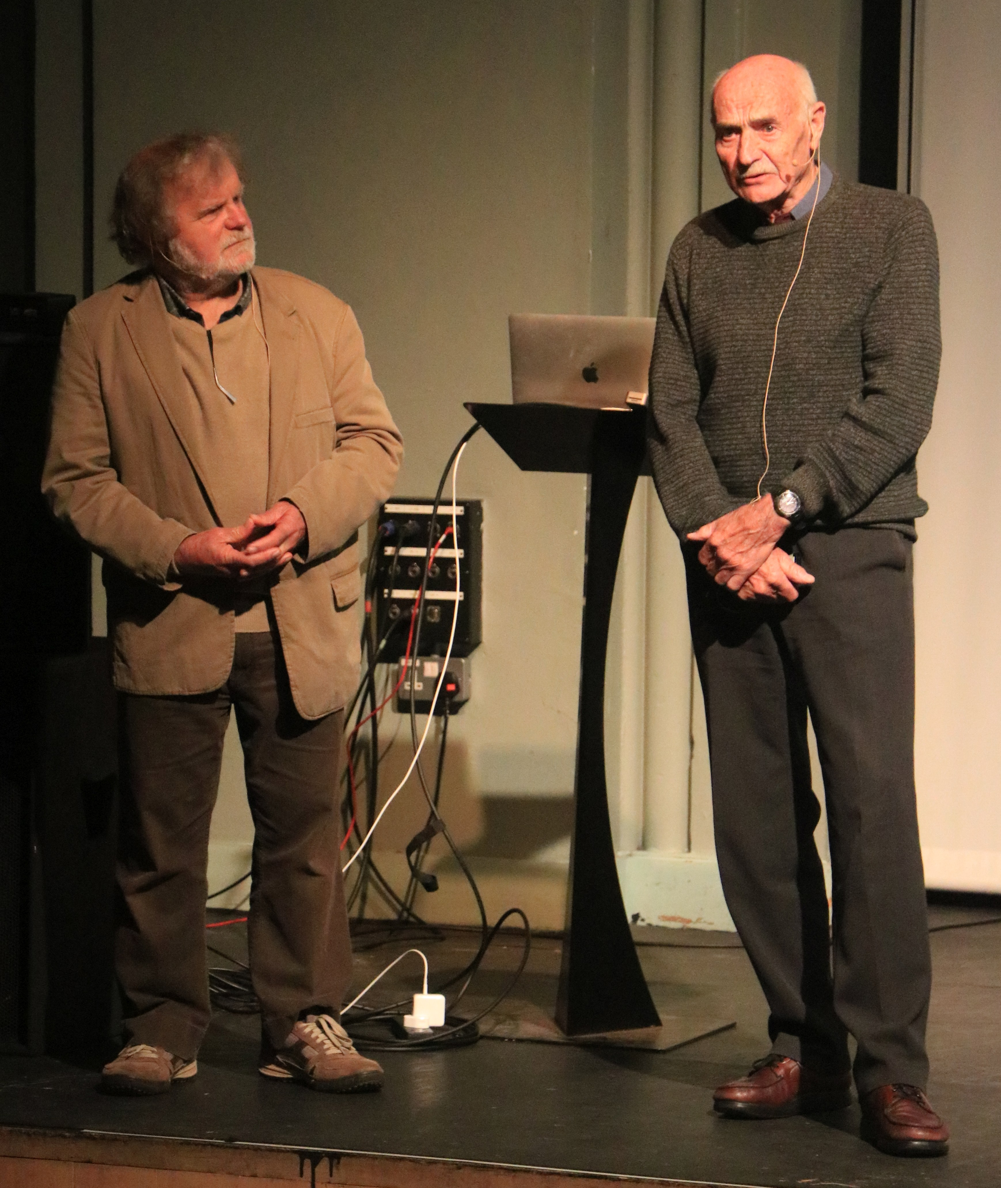 Leo Dickinson (left) and Eric Jones (right), both climbers and adventurers, lecturing at Buxton Adventure Festival in 2019 on their 1970s and 80s exploits in Patagonia and elsewhere.